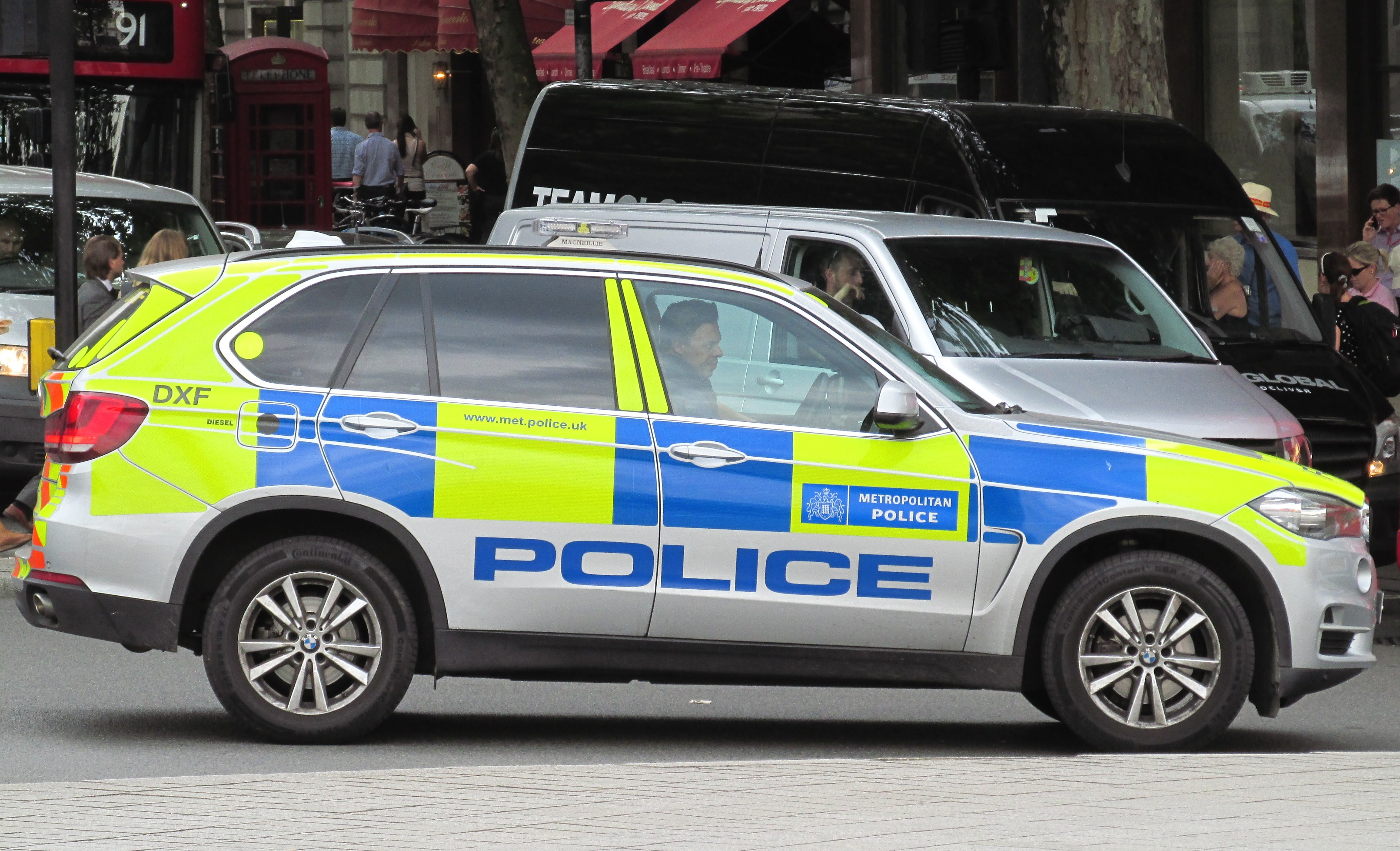 London June 7 2016 029 Police